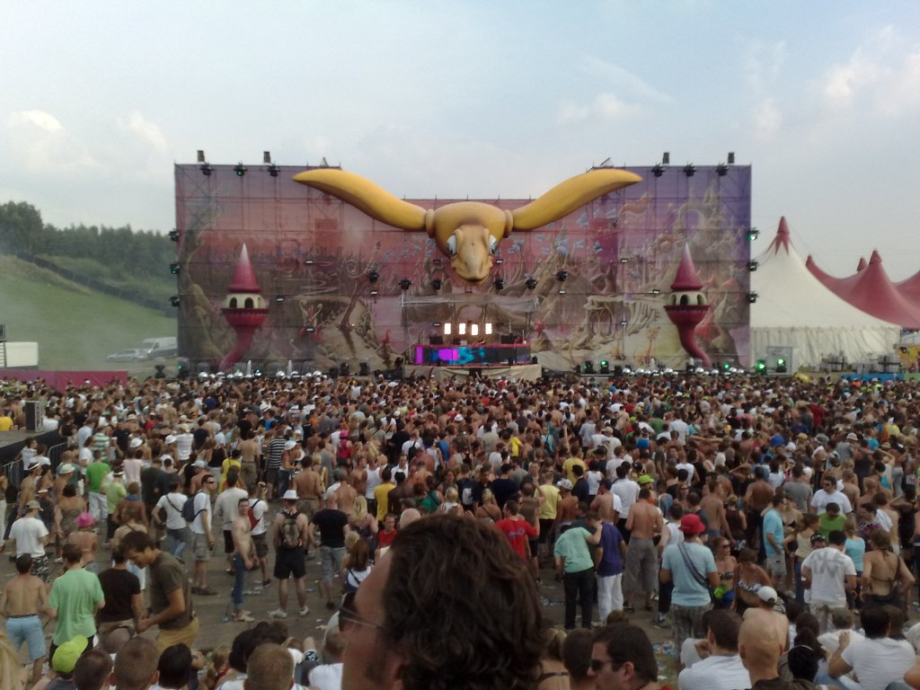 Carl Cox at Tomorrowland 2008